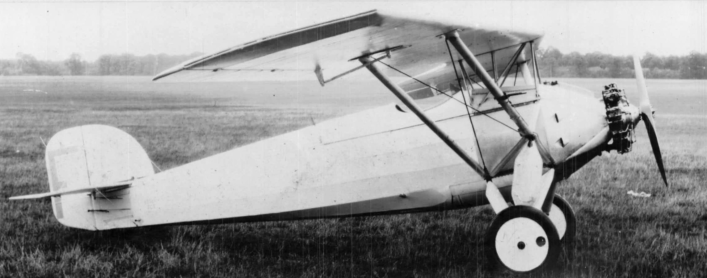 Morane Saulnier MS 180 photo from NACA Aircraft Circular No.93